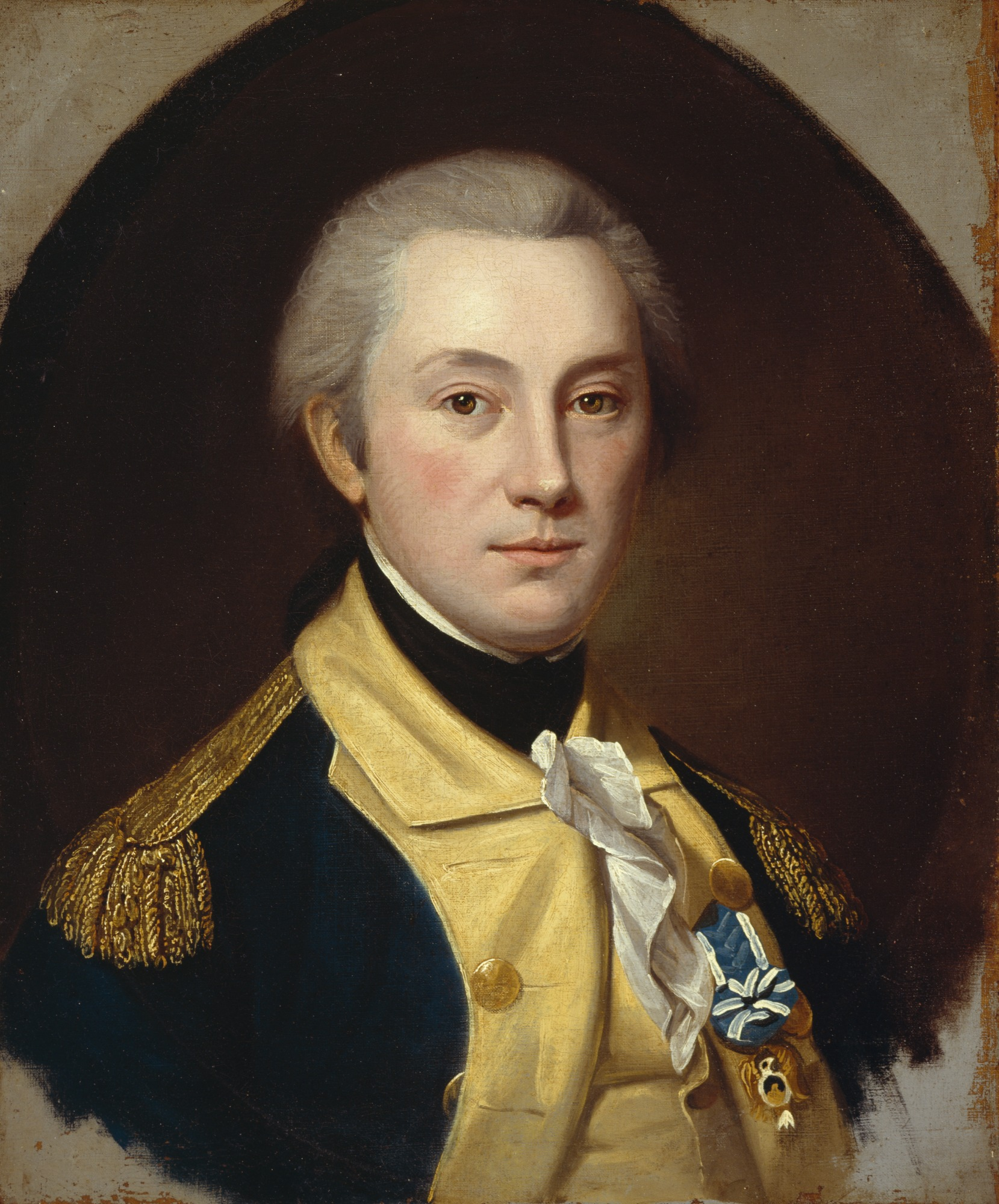 Oil on canvas painting of General William North in Continental Army uniform.